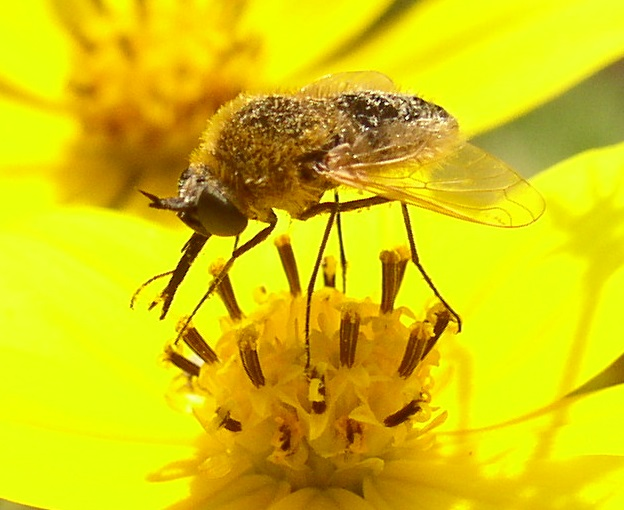 Female bee fly, Sparnopolius confusus. Peace Valley Nature Center, Bucks County, Pennsylvania, USA.